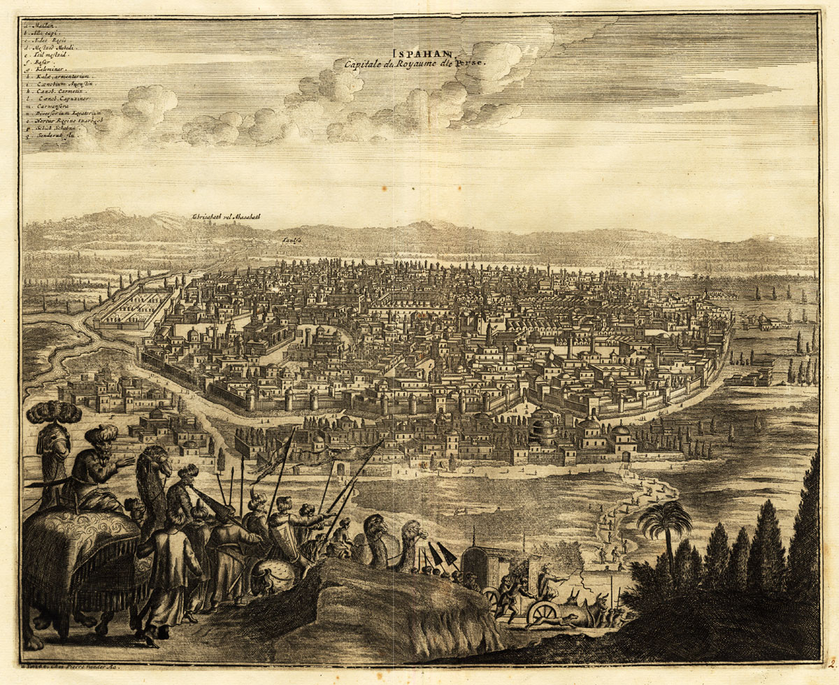 'Ispahan, capitale du Royaume de Perse', by Pieter van der Aa, from 'La galerie agreable du monde (...). Tome premier des d'Afrique.', published by P. van der Aa, Leyden, c. 1725. Source: ebay, Feb. 2012